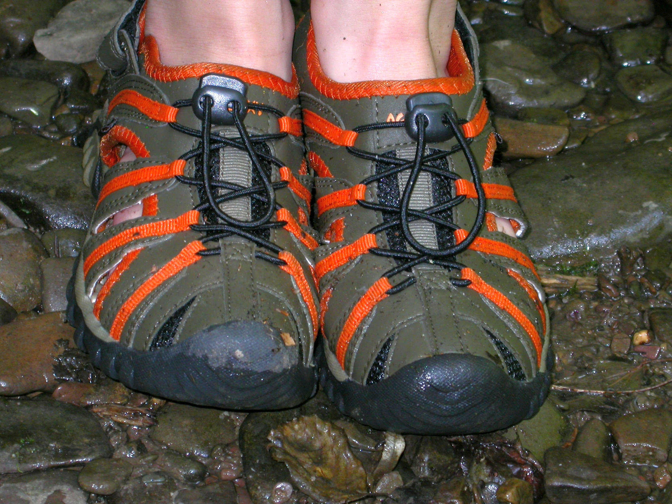 Gerüstet für's Waten in der Dhünn. Damit es keine Wunden gibt ..